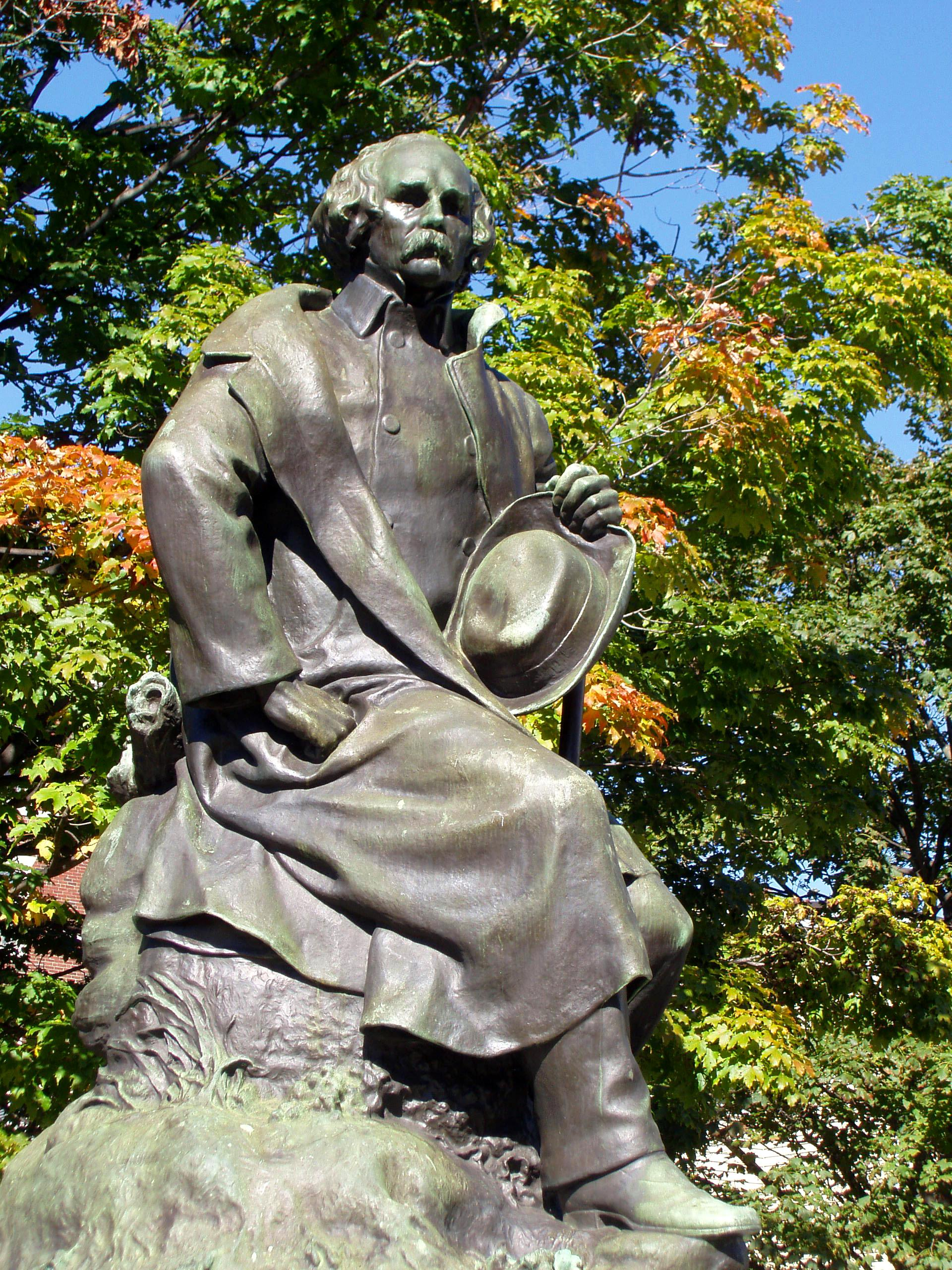 Statue of Nathaniel Hawthorne by sculptor Bela Pratt (1867–1917), in Salem, Massachusetts, USA. Copyright (if any) has expired on this image, as the sculptor died more than 70 years ago.